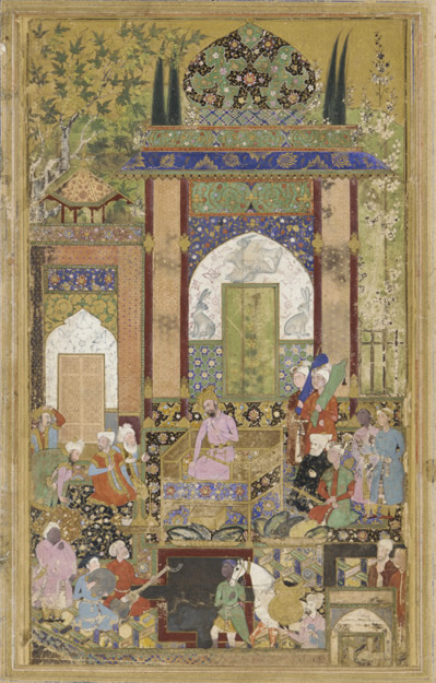 from Lahore, Pakistan